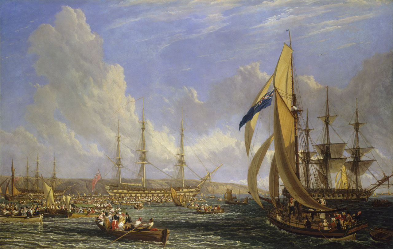 HMS Bellerophon anchored in Plymouth Sound, with Napoleon Bonaparte aboard. Bonaparte had surrendered to Captain Frederick Lewis Maitland of the Bellerophon and been transported to England. Pictured are the crowds of people who came out in small boats to see the former emperor when he came out on deck, usually at 6.30pm each day. Also in the picture are the two frigates Eurotas and Liffey.